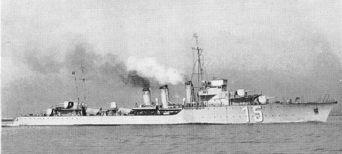 The French destroyer Ouragan, ONI203 booklet for identification of ships of the French Navy, published by the Division of Naval Inteligence of the Navy Department of the United States (9 November 1942).